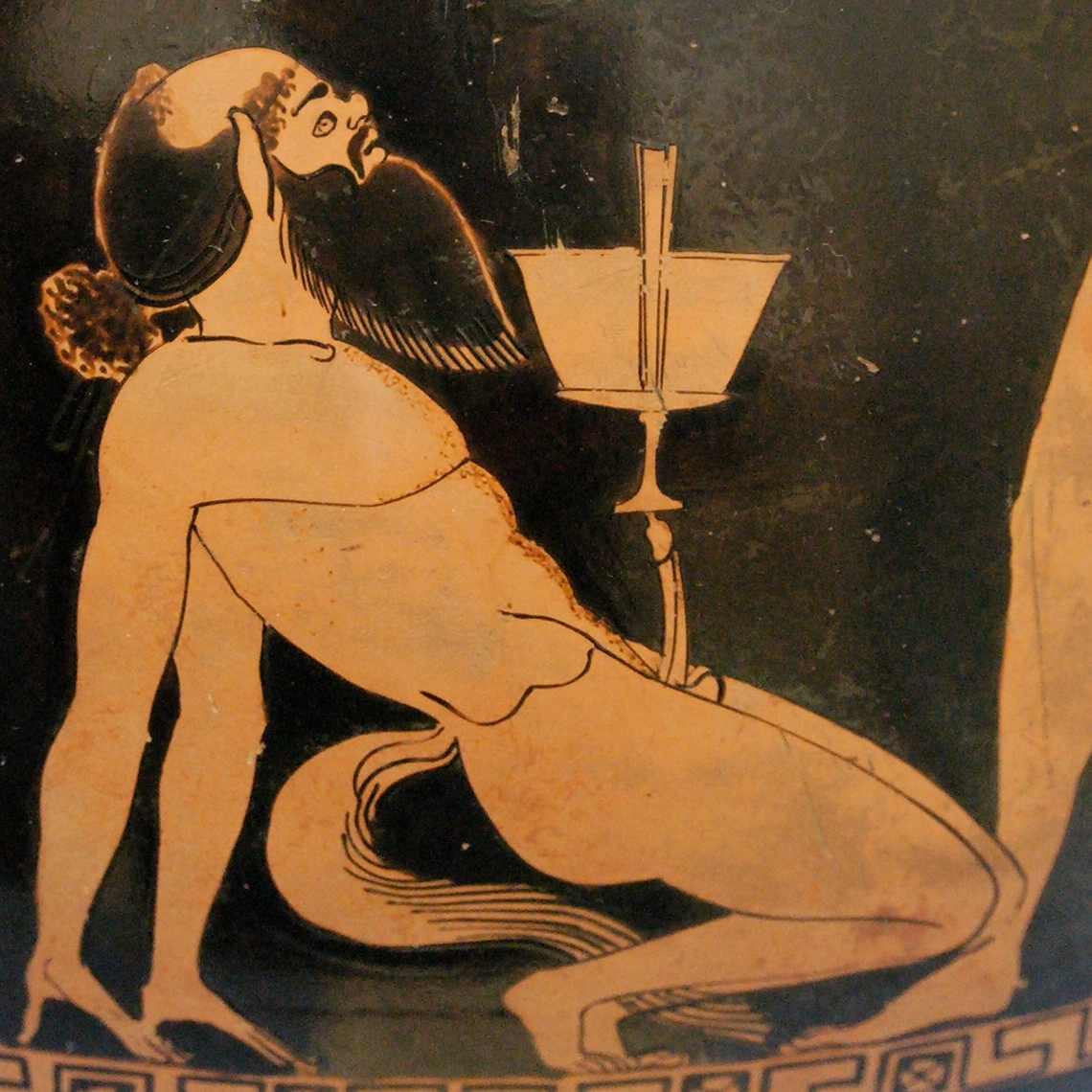 Drunk cavorting and ithyphallic silenus, balancing a kantharos on his penis. Detail from an Attic red-figured psykter. From Cerveteri.